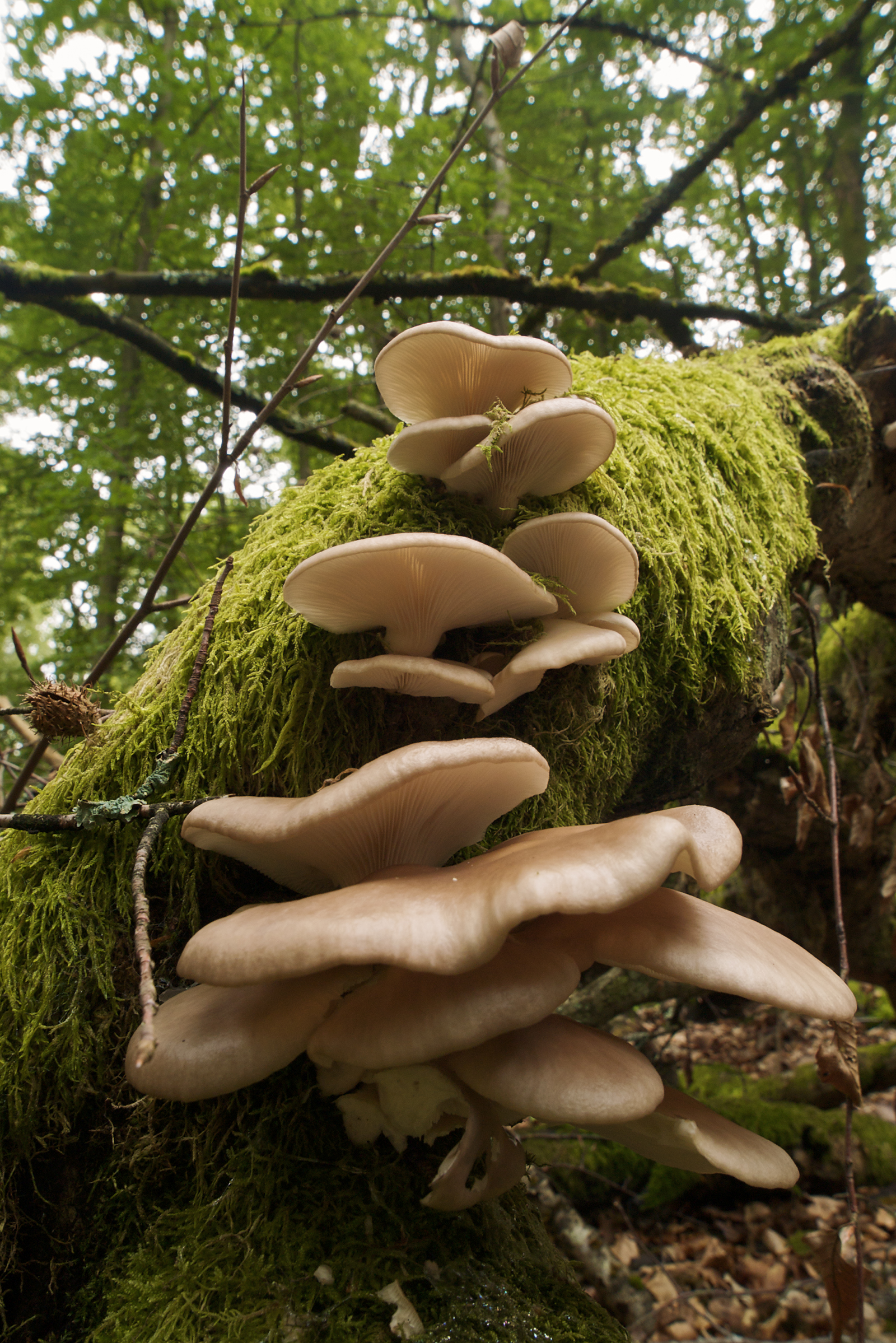 Lung Oyster (Pleurotus pulmonarius), Småland, Sweden